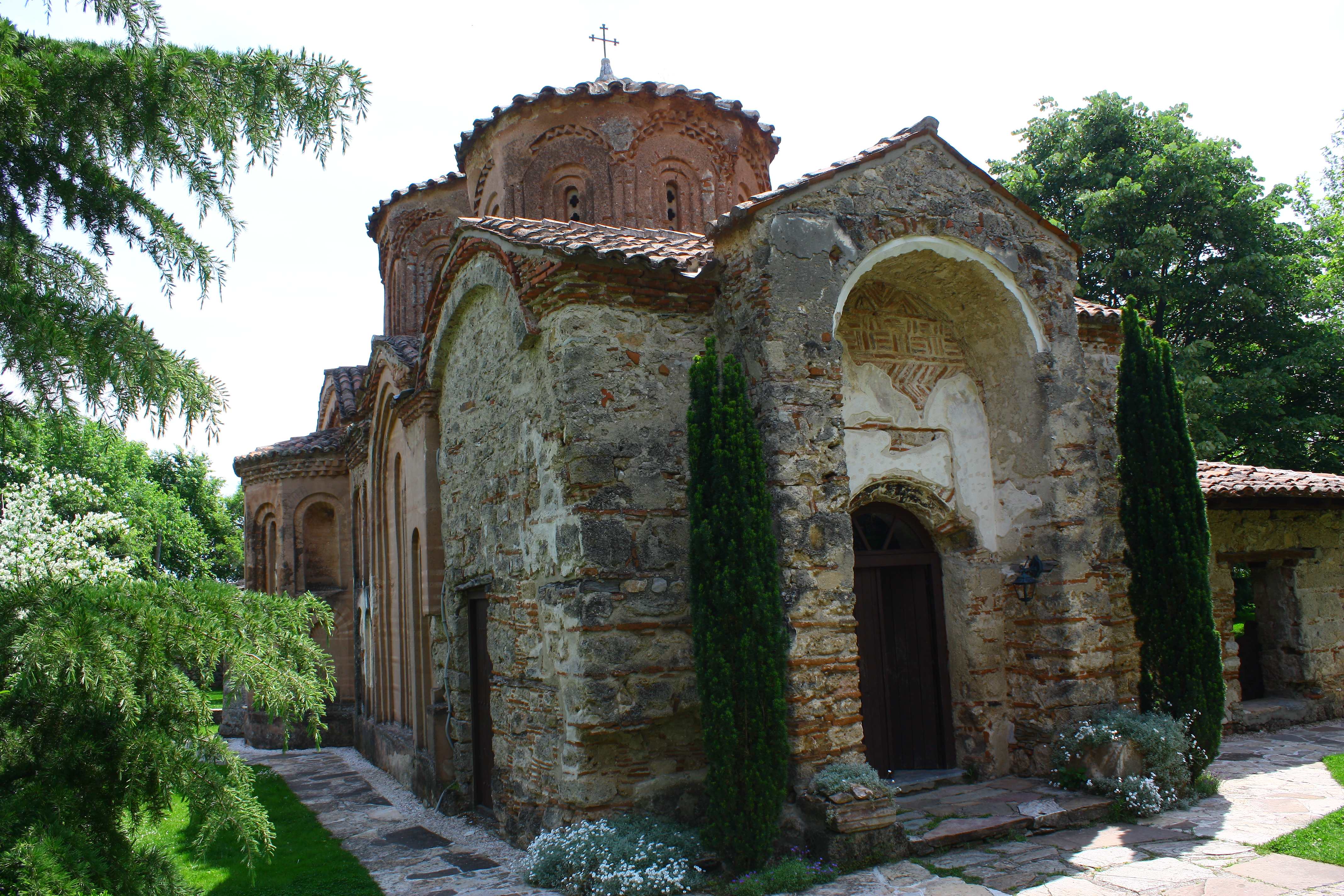 Nativity of the Theotokos Church in Veljusa near Strumica, Macedonia